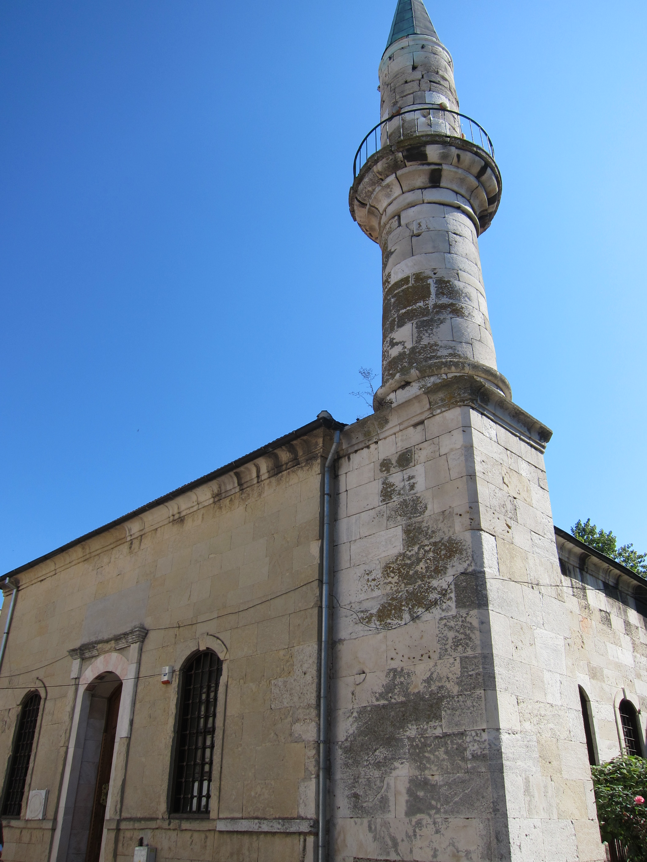 Hünkar Mosque (Hunchiar Mosque, Geamia Hunchiar) — in Constanța, coastal Romania. The mosque was built between 1867-1868 by Ottoman Sultan Abdülaziz for Turks who were forced to leave Crimea after the Crimean War (1853–56) and settled in Constanța. The mosque has a 24m high minaret and was subject to a restoration in 1945 and 1992.